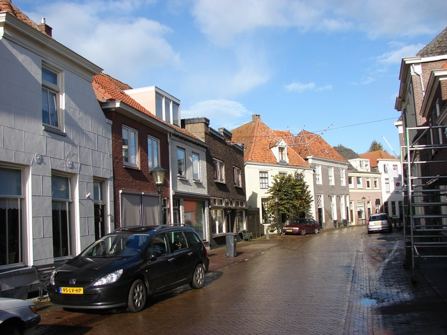 hasselt, overijssel